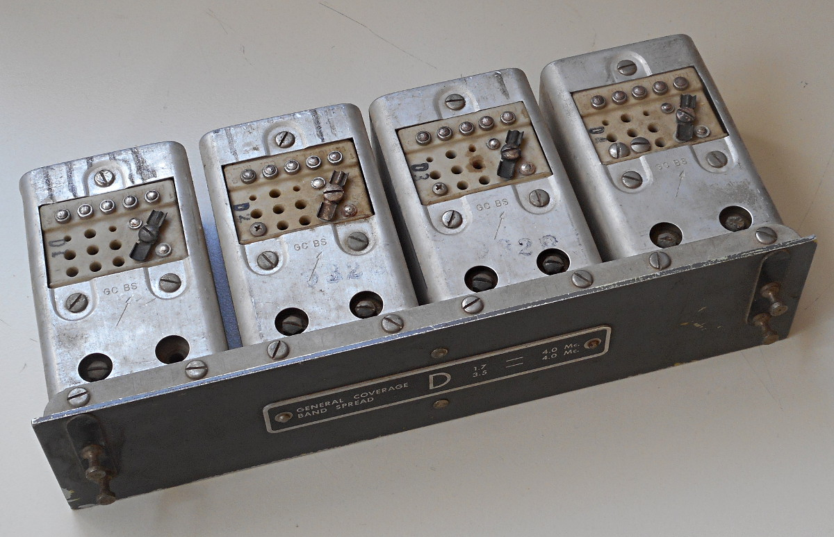 Detail of plug-in tuning coil assemby D for the National HRO-60 receiver - this is the 80m coil set, covering 1.7-4.0 MHz (general coverage) with 3.5-4.0 MHz bandspread.